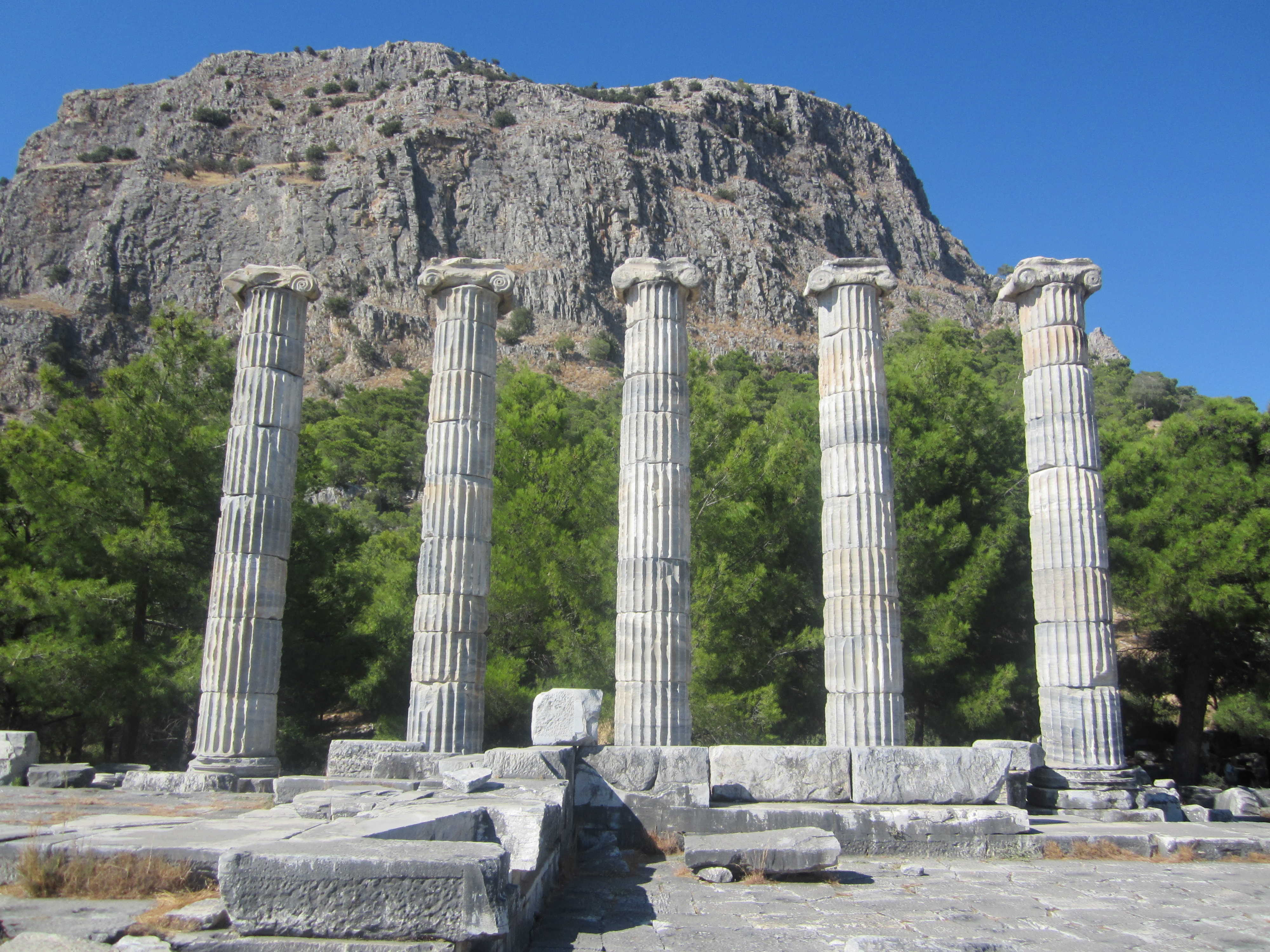 Ruins of the temple of Athena (Athene) Polias. Archaeological site of ancient Priene in modern Turkey.